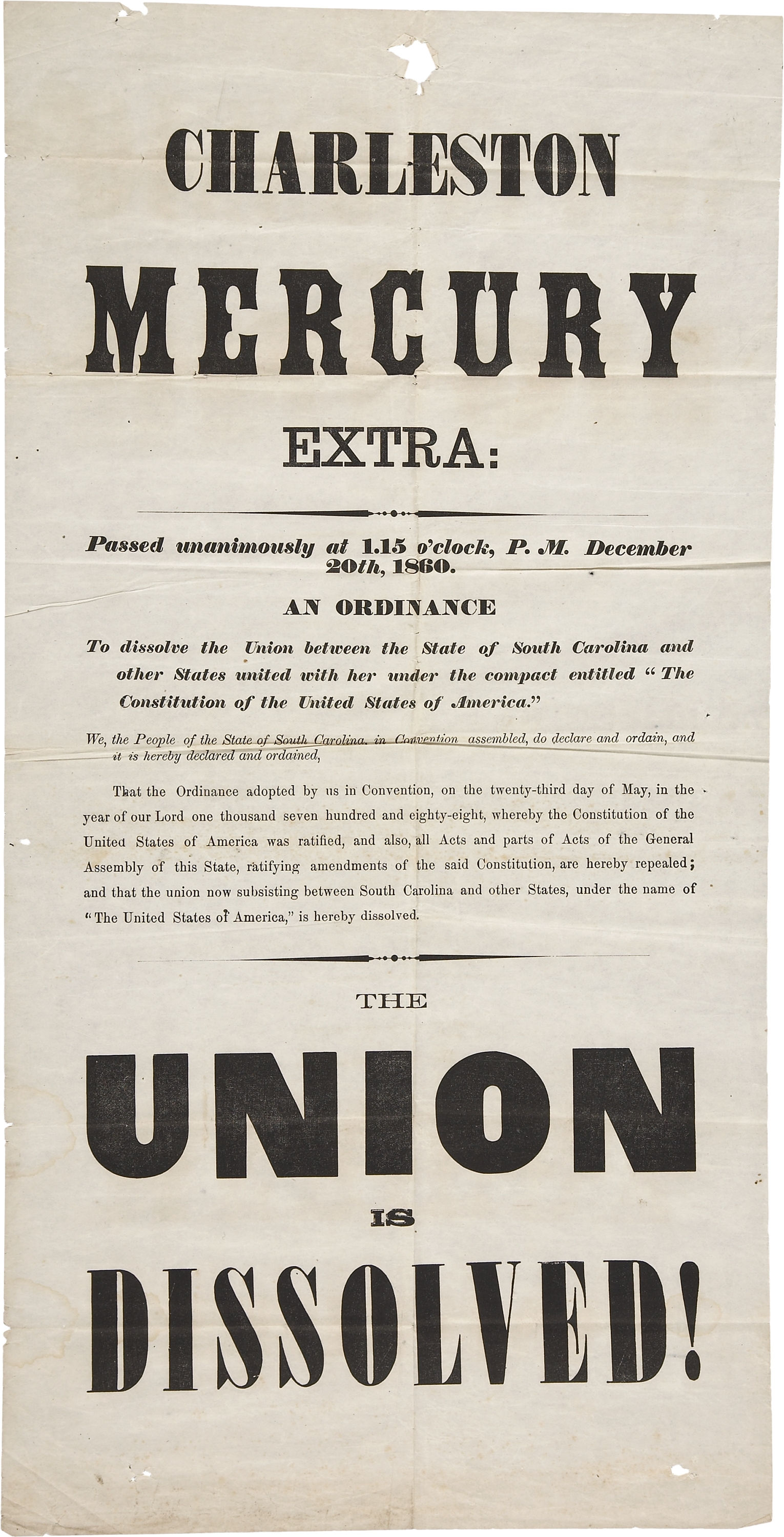 Original copy of the very first Confederate imprint defining the moment that the first southern state formally seceded from the United States of America.